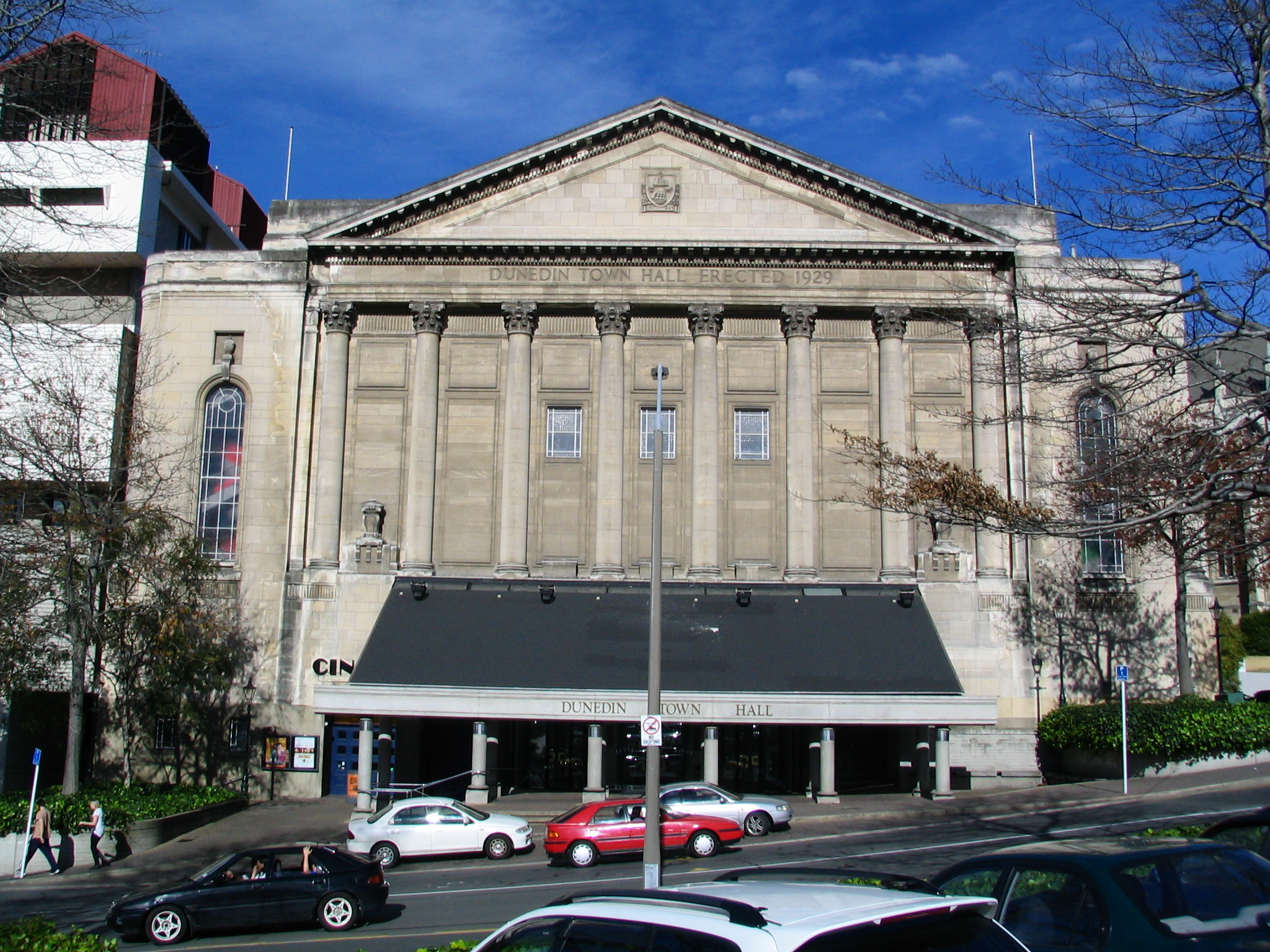 Dunedin Town Hall, New Zealand. Historic Place - Category II, register number 2150